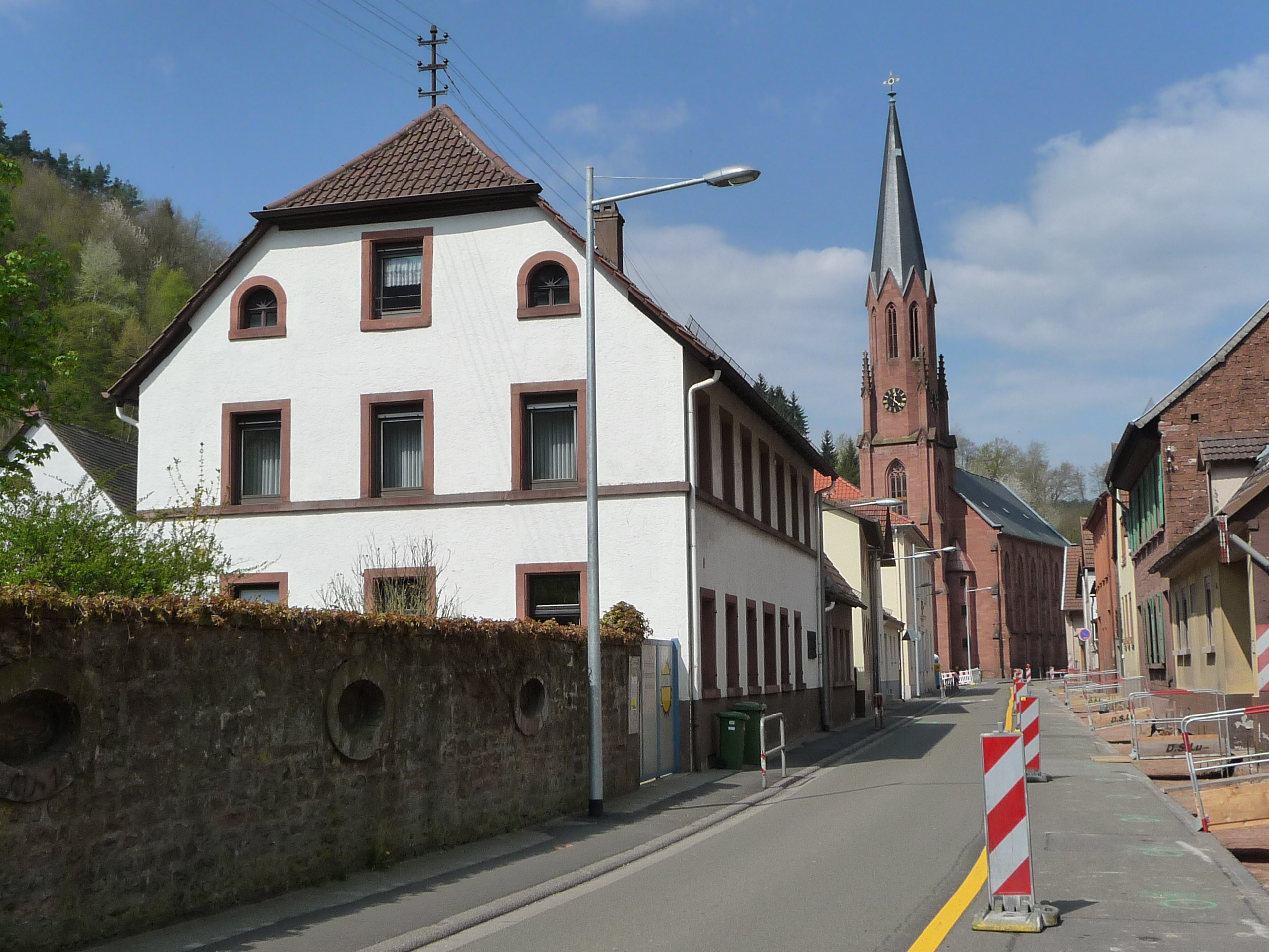 Weidenthal